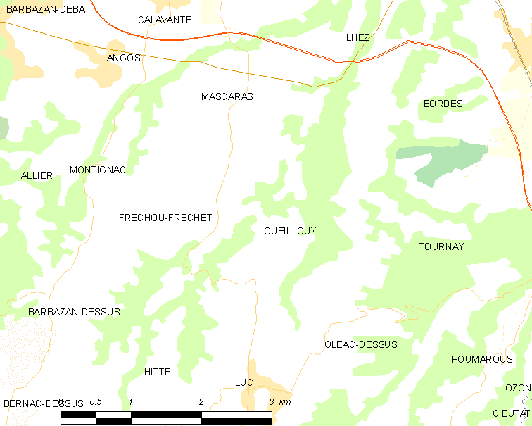 Map of French municipality